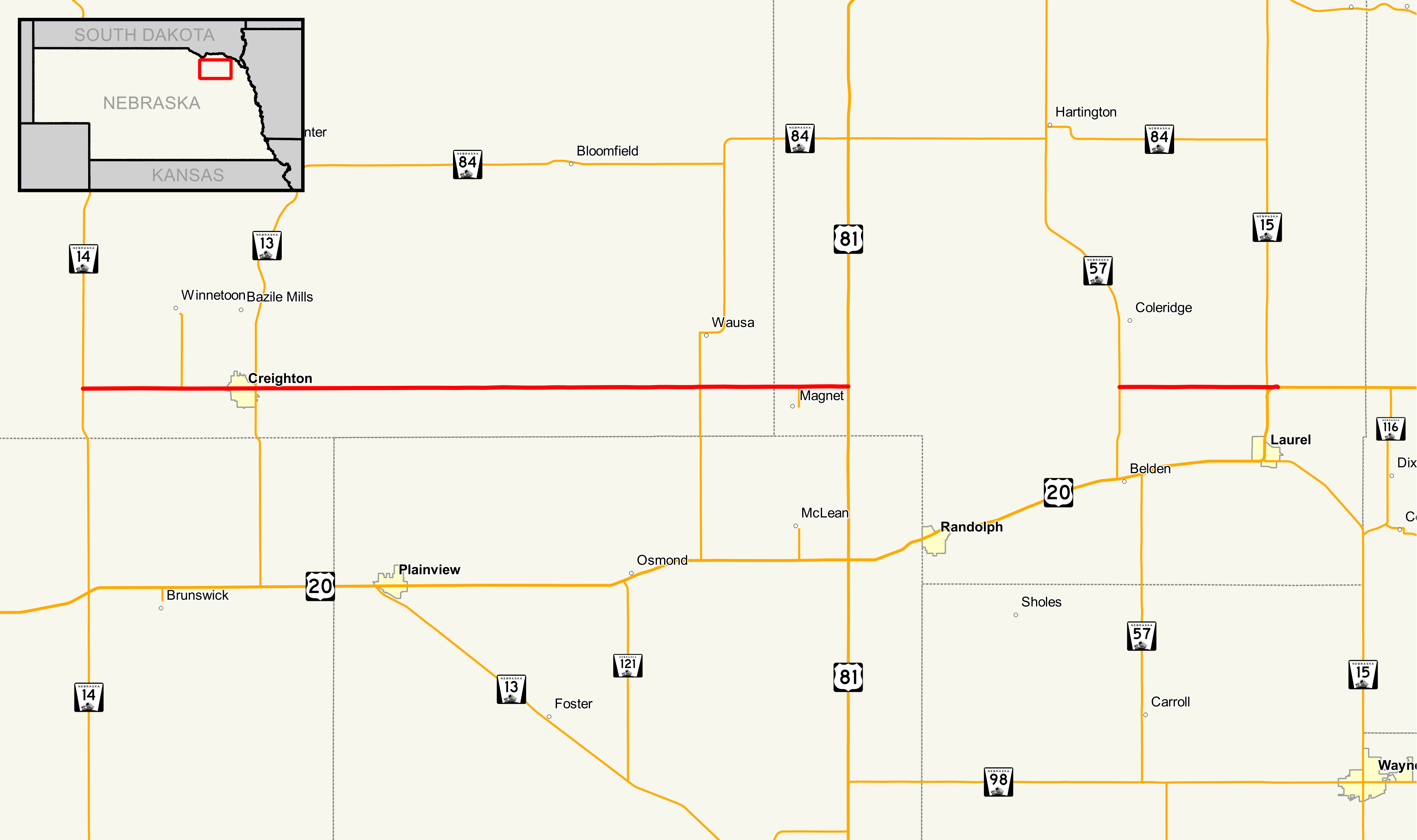 Map of Nebraska Highway 59 Data Sources: Nebraska Highways - - Dec 2016 Nebraska County Boundaries - - Dec 2016 Nebraska City Boundaries - - Dec 2016 This PNG graphic was created with QGIS